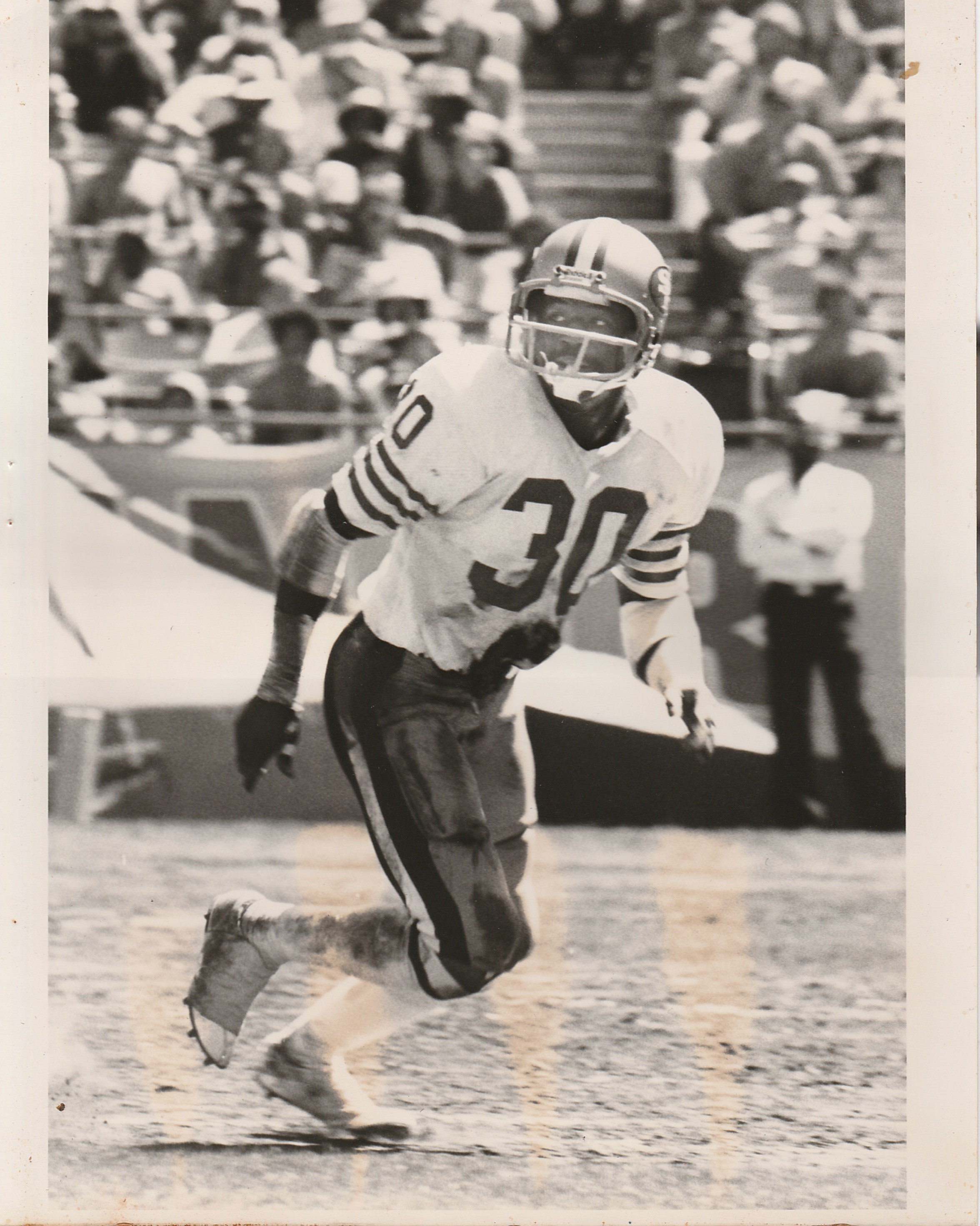 Tim Gray 1